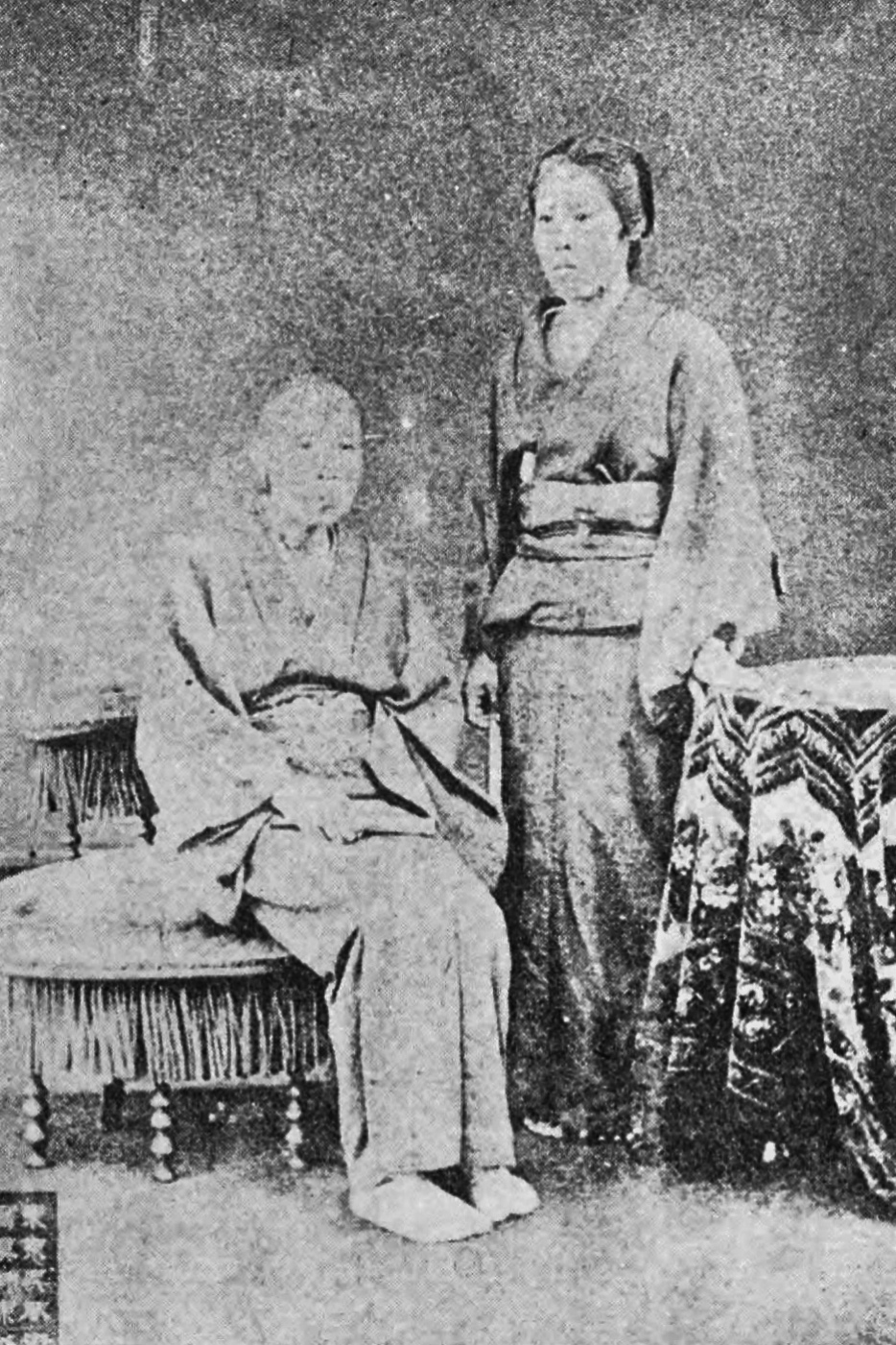 Kawai Sada, mother of Kawai Tsuginosuke (left) and Kawai Suga, wife of Kawai Tsuginosuke (right)